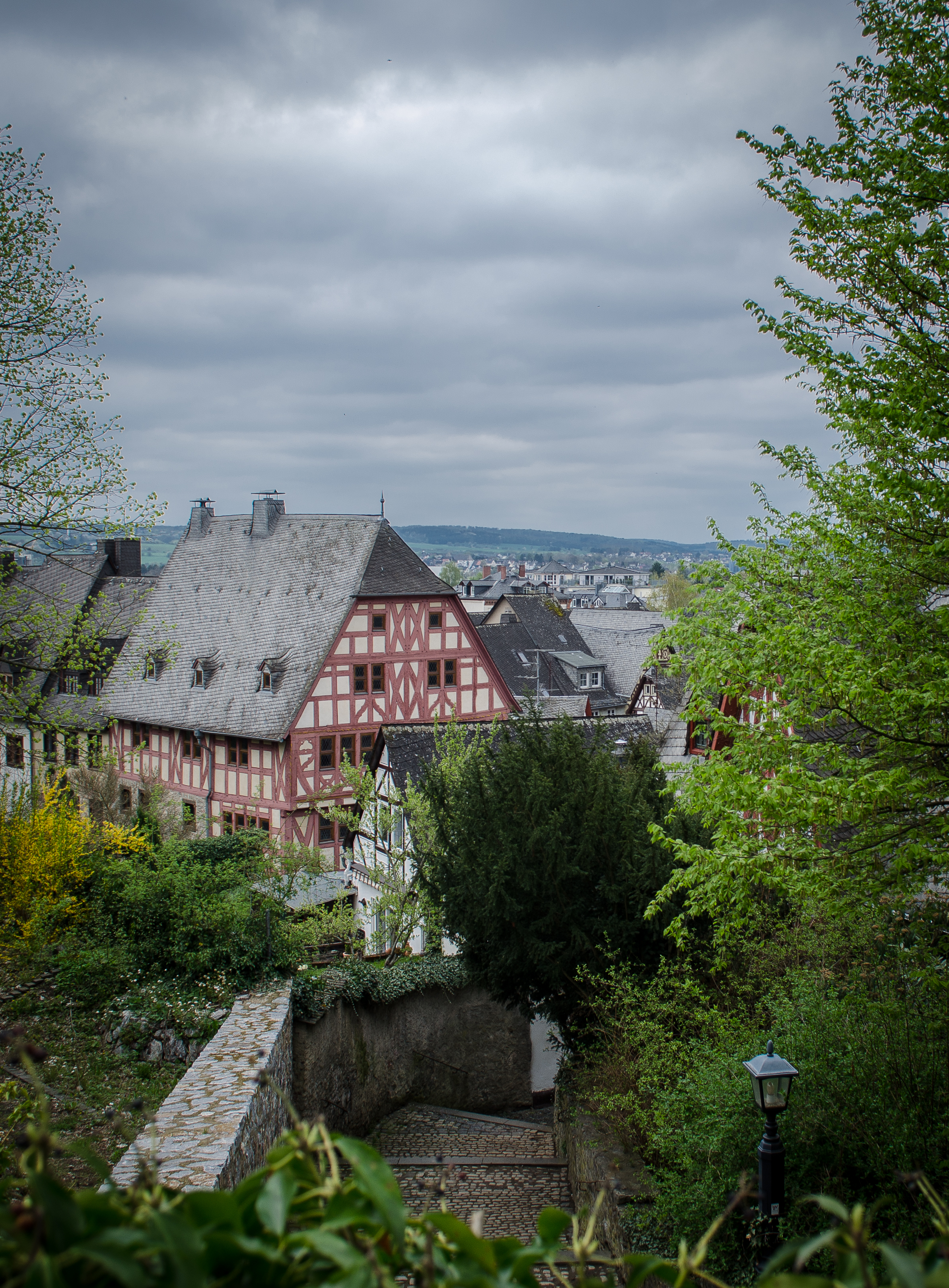 A view to the Roemer 2-4-6, one of the oldest houses in Germany